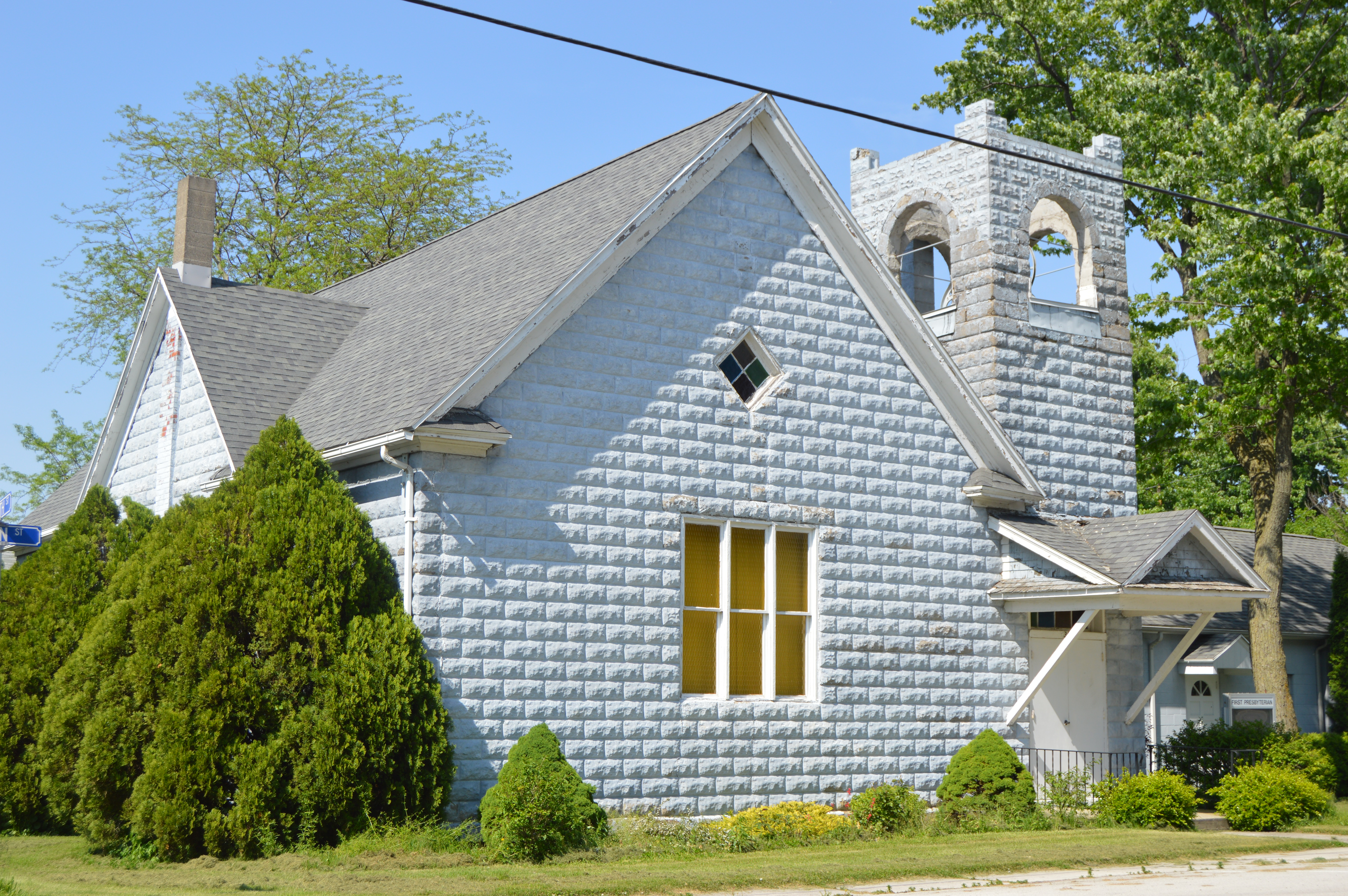 Front and western side of the former Clay Center Presbyterian Church, located at 425 Main Street in Clay Center, Ohio, United States.